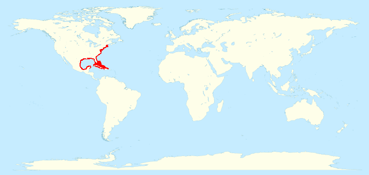 Range map of Leiostomus xanthurus or spot croaker